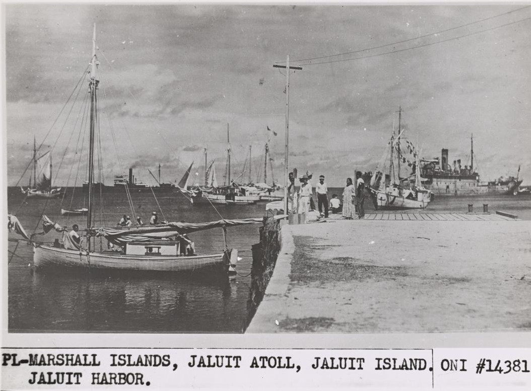 A picture of Jaluit Atoll. It is from a dossier compiled by the Office of Naval Intelligence on the Marshall Islands. Given the limited experience with them, they apparently took any pictures they could find, including from travel guides; while uncredited in the file, this picture is from page 44 of Umi no seimeisen : Waga nannyou no sugata, a travelogue written in Japanese. This picture acquired new interest after it was prominently featured in Amelia Earhart: The Lost Evidence and it was claimed that people in the background were Amelia Earhart and Fred Noonan, a claim later shown to be impossible due to the publication date of 1935.